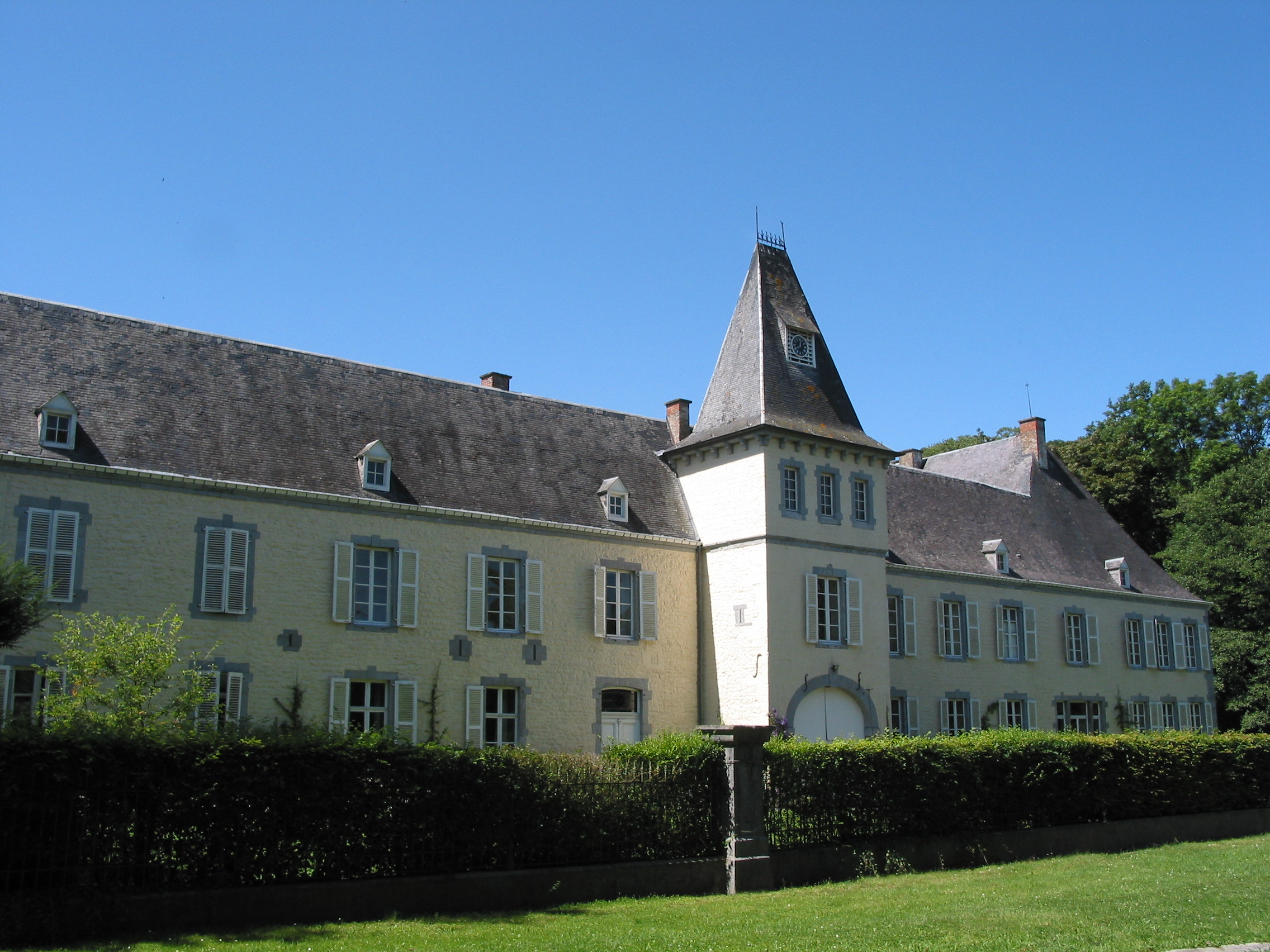 Resteigne (Belgium): the castle (16th–19th centuries).